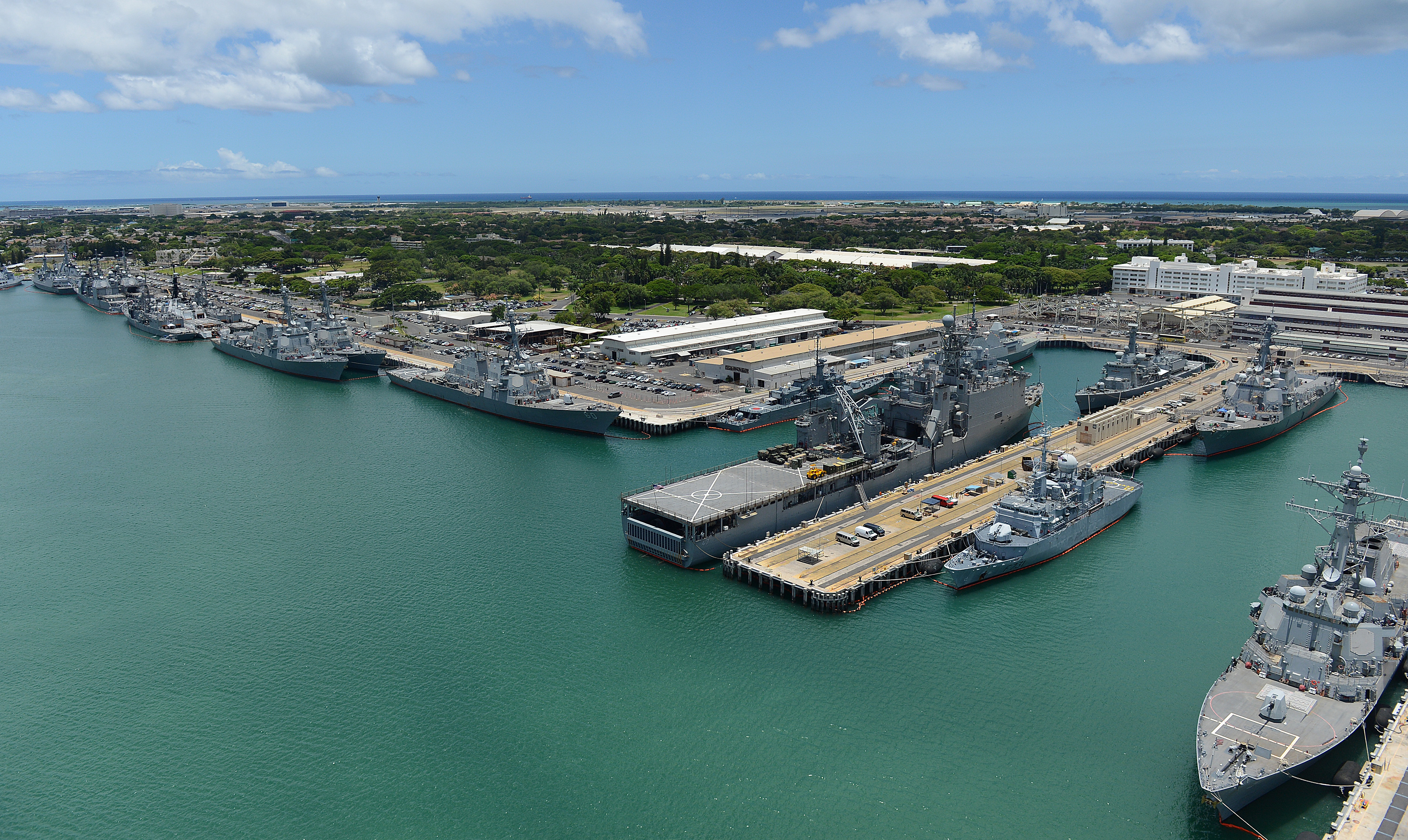 An aerial view of ships moored at Joint Base Pearl Harbor-Hickam during Rim of the Pacific (RIMPAC) Exercise 2014. The world's largest international maritime exercise, RIMPAC provides a unique training opportunity that helps participants foster and sustain the cooperative relationships that are critical to ensuring the safety of sea lanes and security on the world's oceans. Twenty-two nations, more than 49 ships, six submarines, more than 200 aircraft and 25,000 personnel are participating in RIMPAC. (U.S. Navy photo by Mass Communication Specialist 1st Class Shannon E. Renfroe/Released)